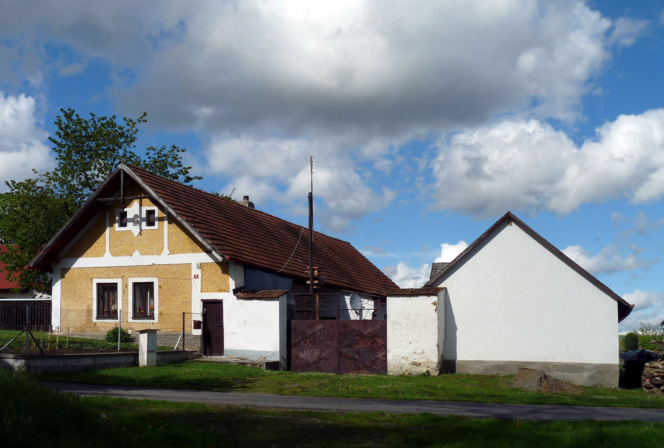 House No 11 in the village of Březina, municipality of Hořepník, Pelhřimov District, Vysočina Region, Czech Republic.